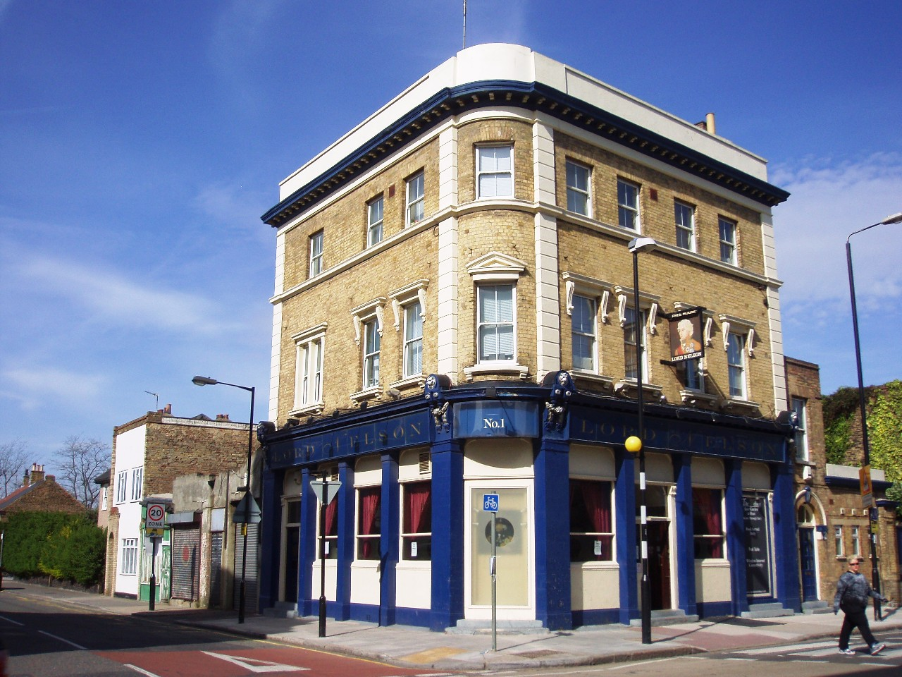 Lord Nelson, 1 MANCHESTER ROAD, ISLE OF DOGS, LONDON E14 3BD